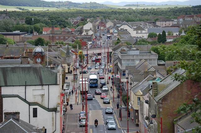 Looking south down the high street, Cowdenbeath, Fife